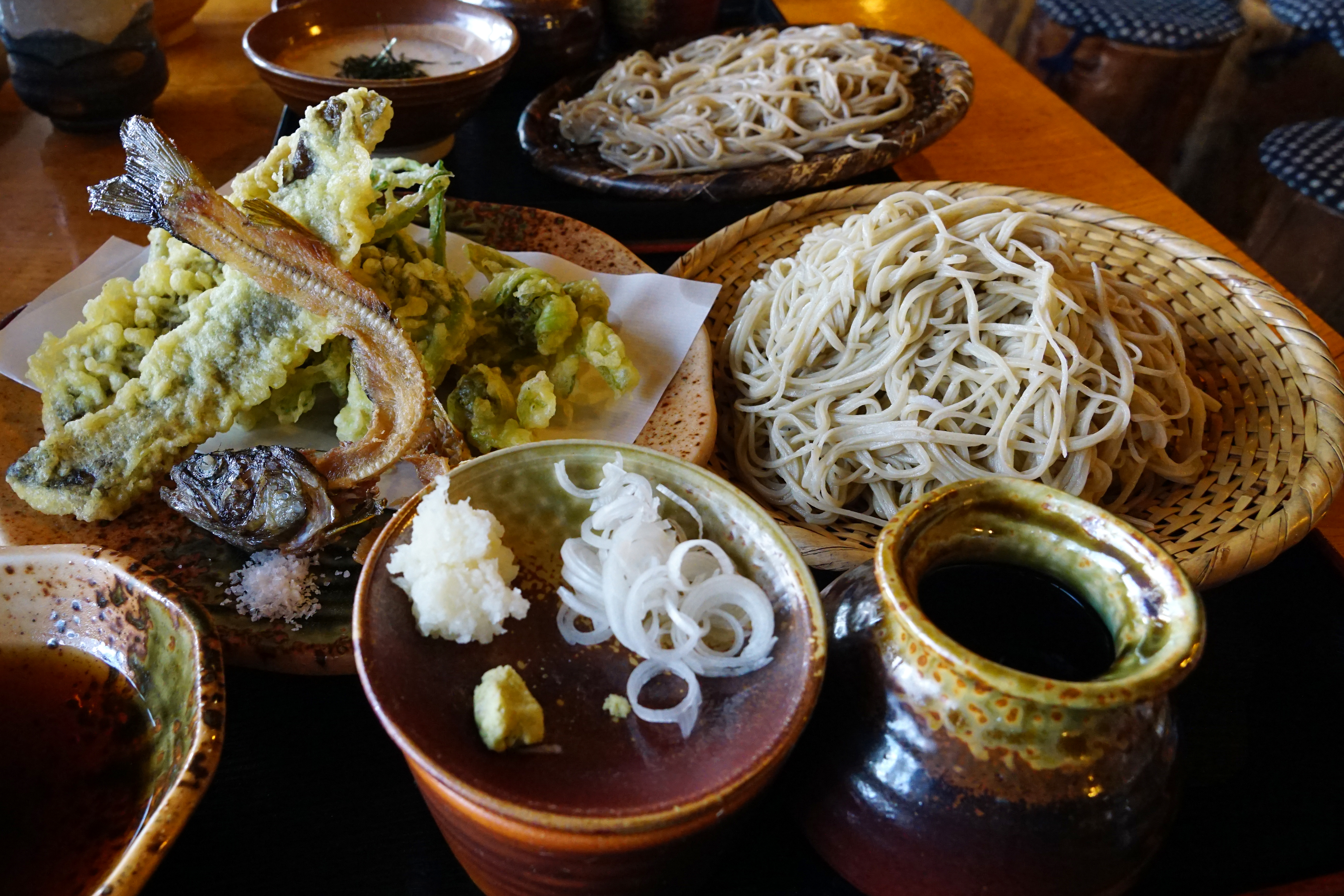 Shinshu soba at Iizuna, Nagano, Nagano prefecture, Japan.